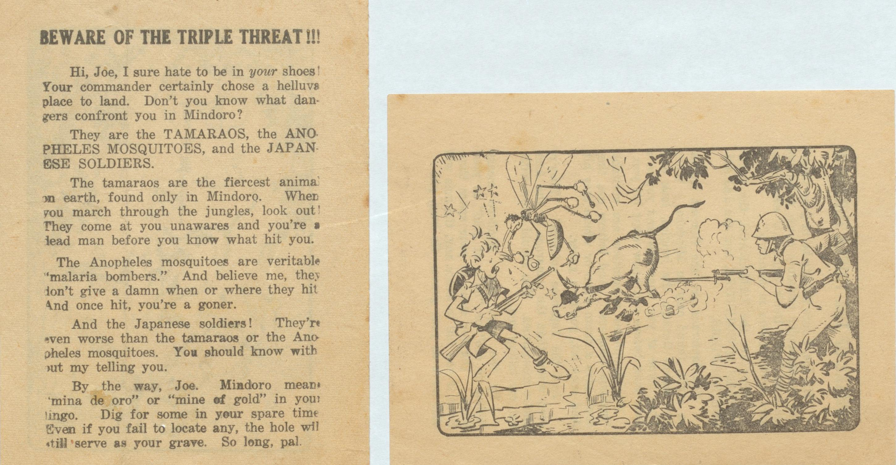 Title: [Beware of the Triple Threat] Date: [1939-1945] Extent: 10x13.5cm Format: Artifacts—Leaflets Rights Info: No known restrictions on access Repository: Thomas Fisher Rare Book Library, University of Toronto, Toronto, Ontario Canada, M5S 1A5